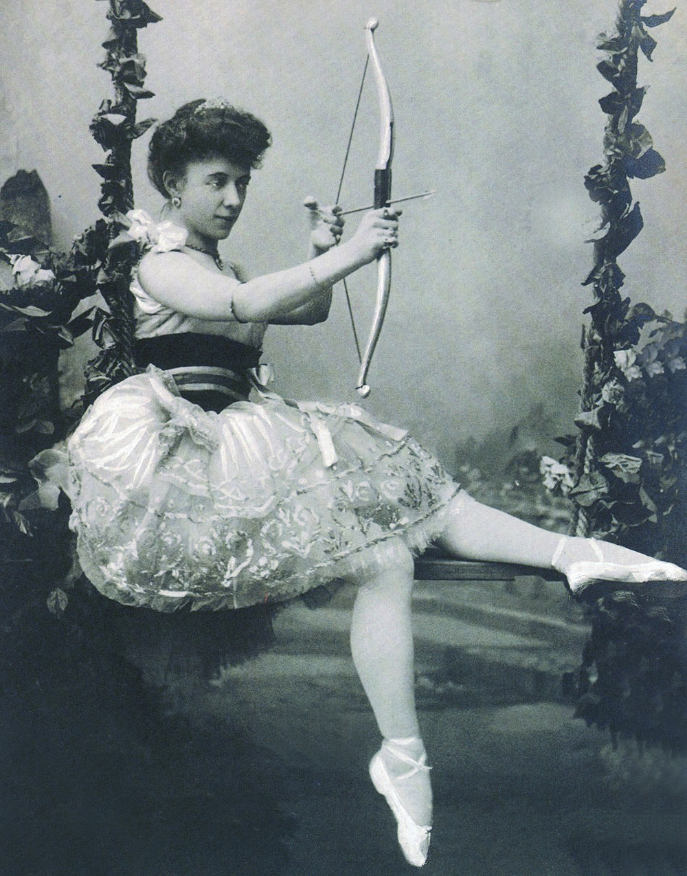 Photo of the ballerina Olga Preobrajenskaya (1871-1962) in the title role of the choreographer Louis Méranté (1828-1887) and the composer Léo Delibes' (1836-1901) 1876 ballet „Sylvia“.